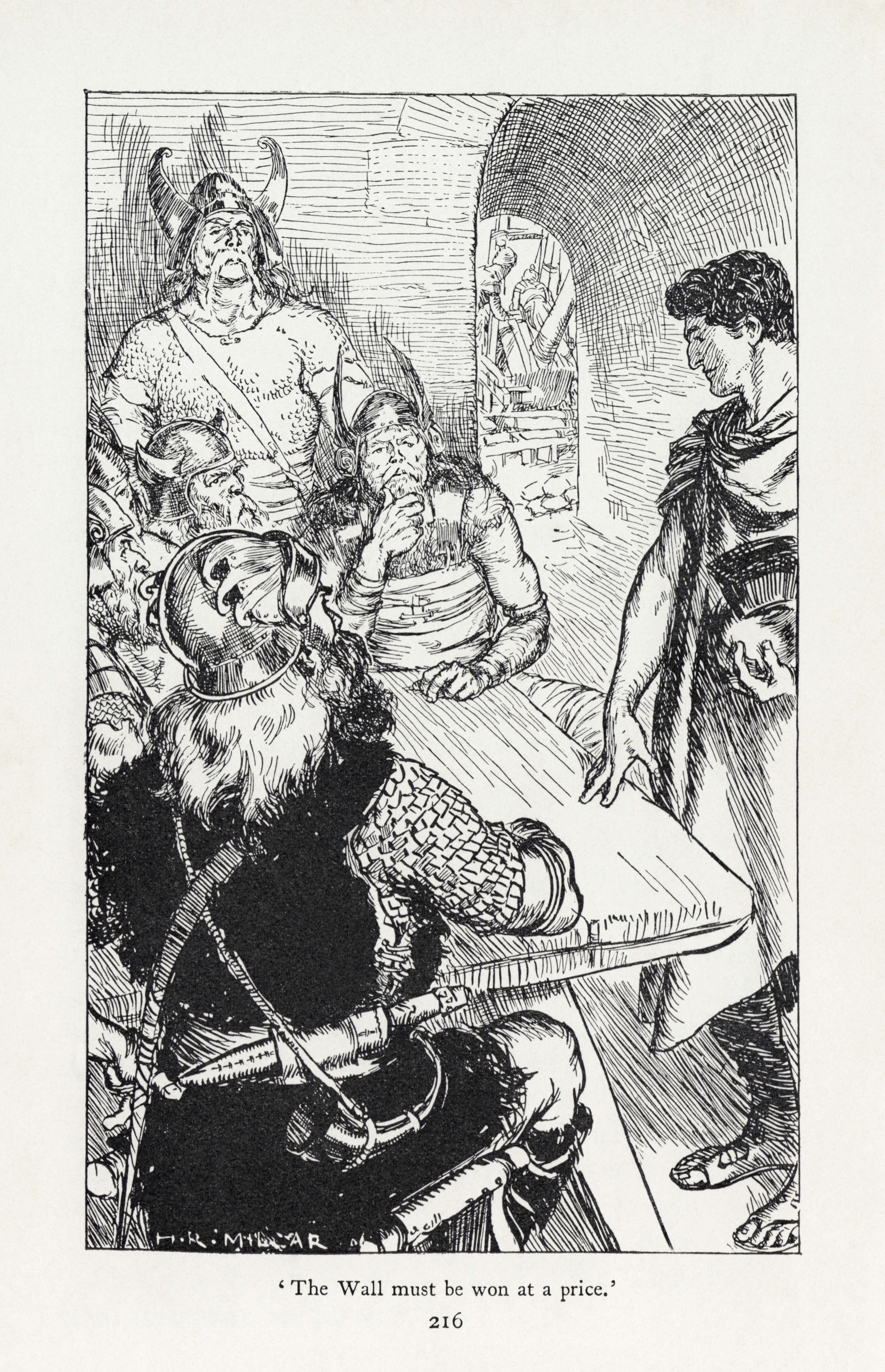 H. R. Millar's 15th illustration to the original edition of Rudyard Kipling's Puck of Pook's Hill, from the chapter "The Winged Hats:": "'The Wall must be won at a price'".